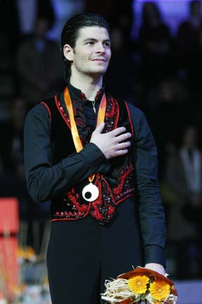 Stephane Lambiel on the men's podium at the 2007-2008 Grand Prix Final.